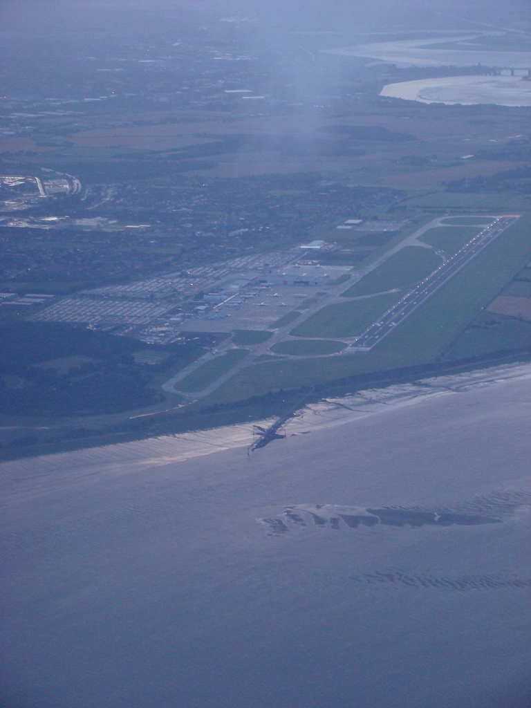 Aerial view of Liverpool John Lennon Airport, England, UK